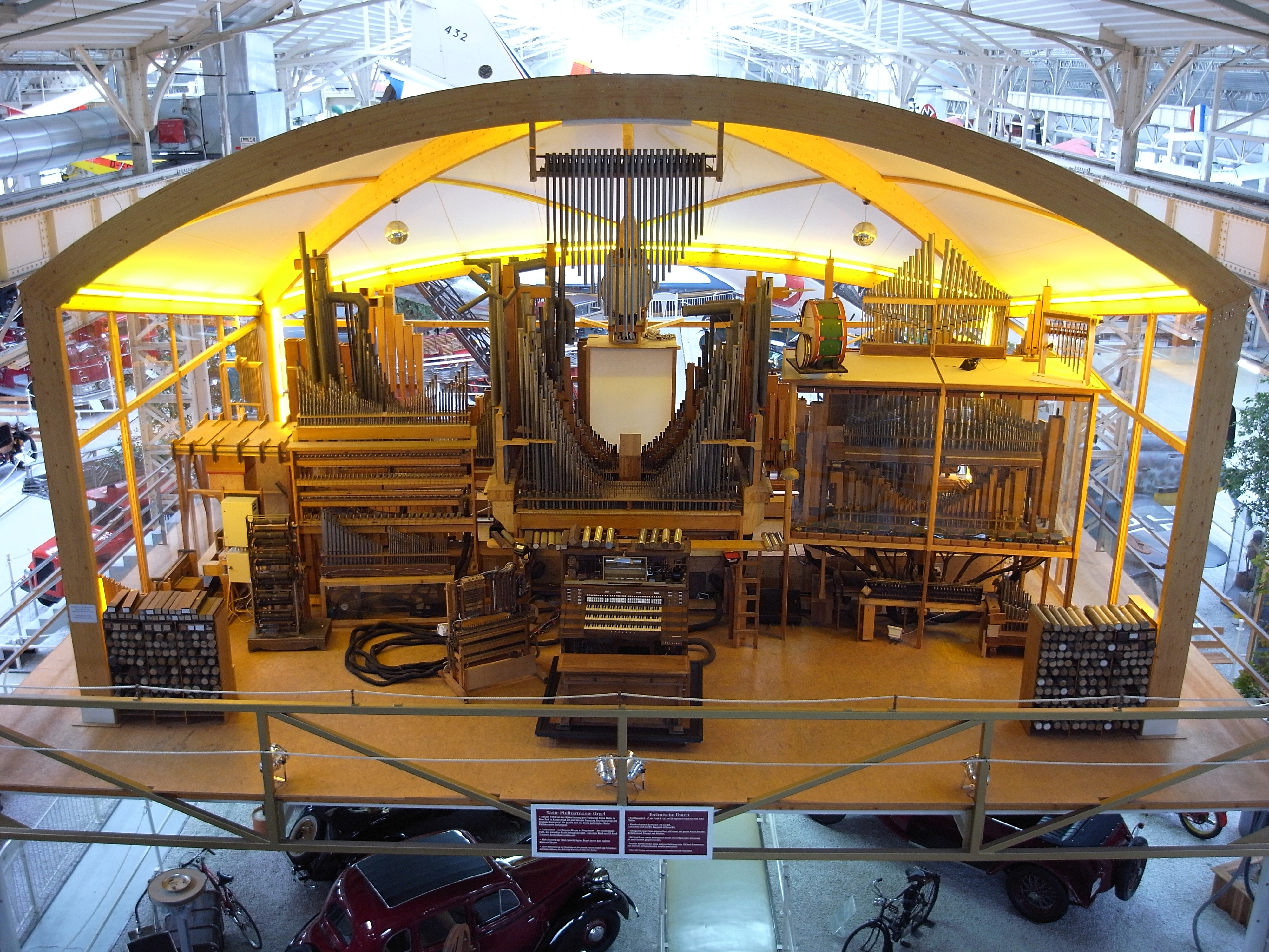 Welte Philharmonic Organ in the Technikmuseum Speyer. The original owner was Eugene Isaac Meyer.